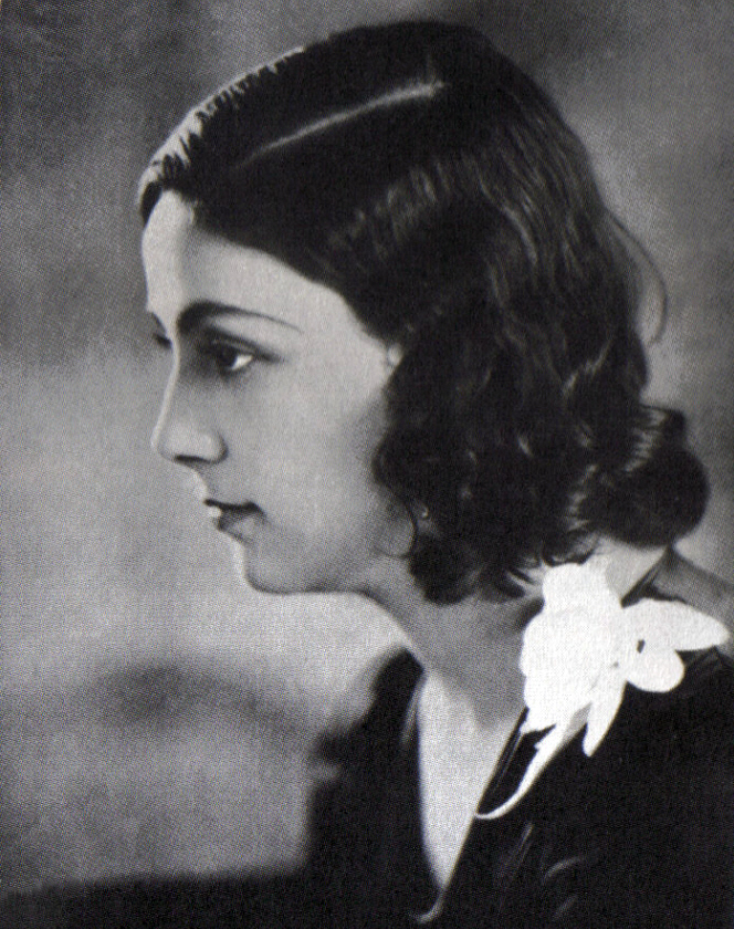 Yolanda Pereira, Miss Universe 1930 and Miss Brazil – little cropped & retouched detail-image